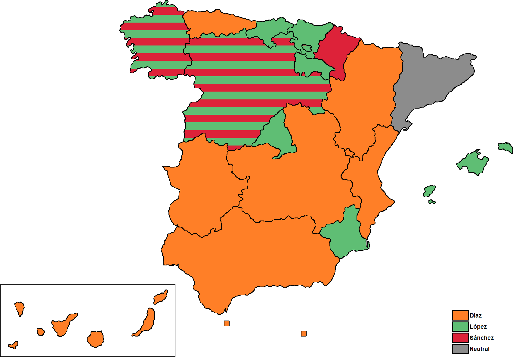 Regional party federations' support to candidates in the 2017 PSOE primary election.